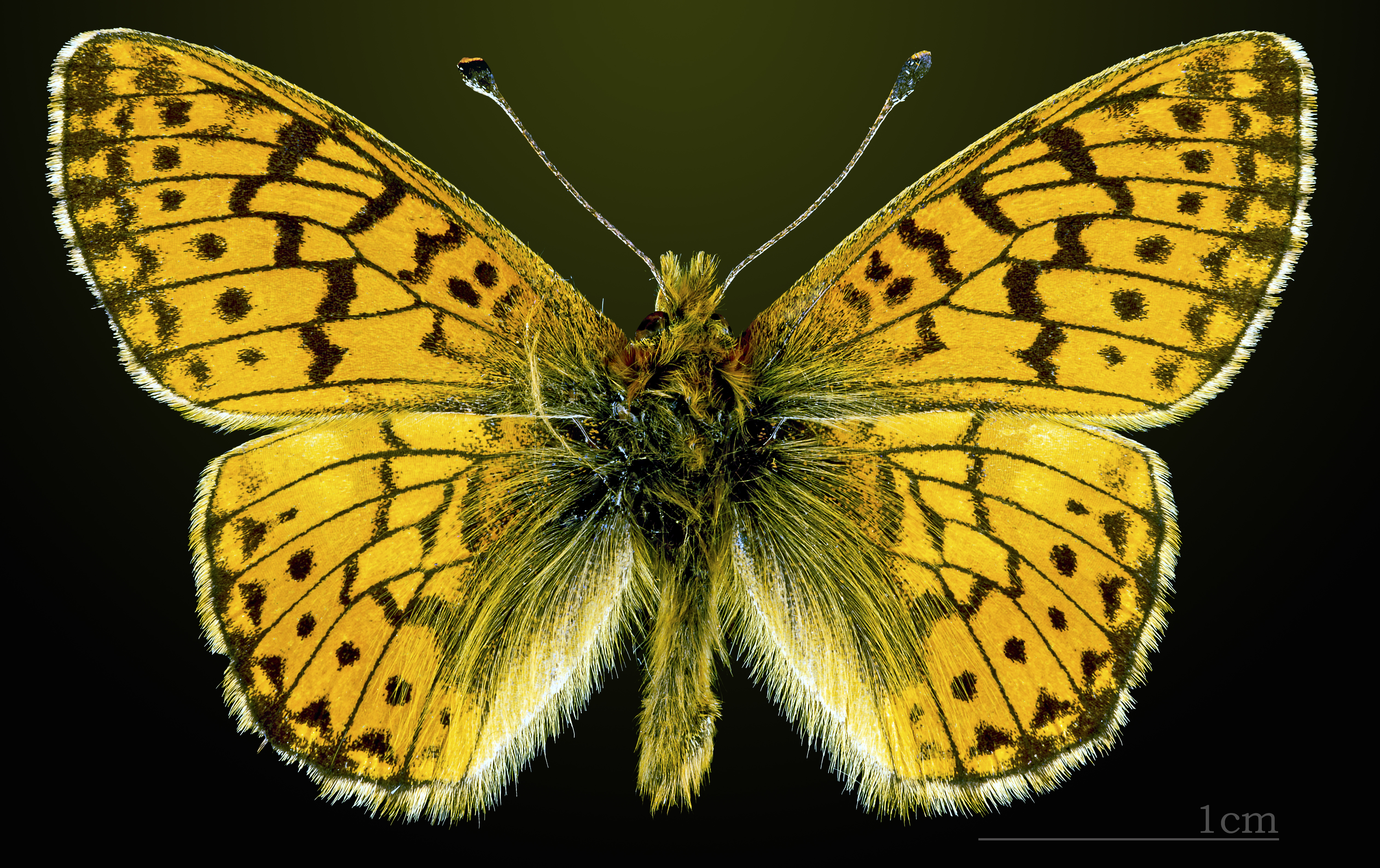 Napaea Fritillary - Dorsal side Locality:Étang de Laurenti, Ariège, France